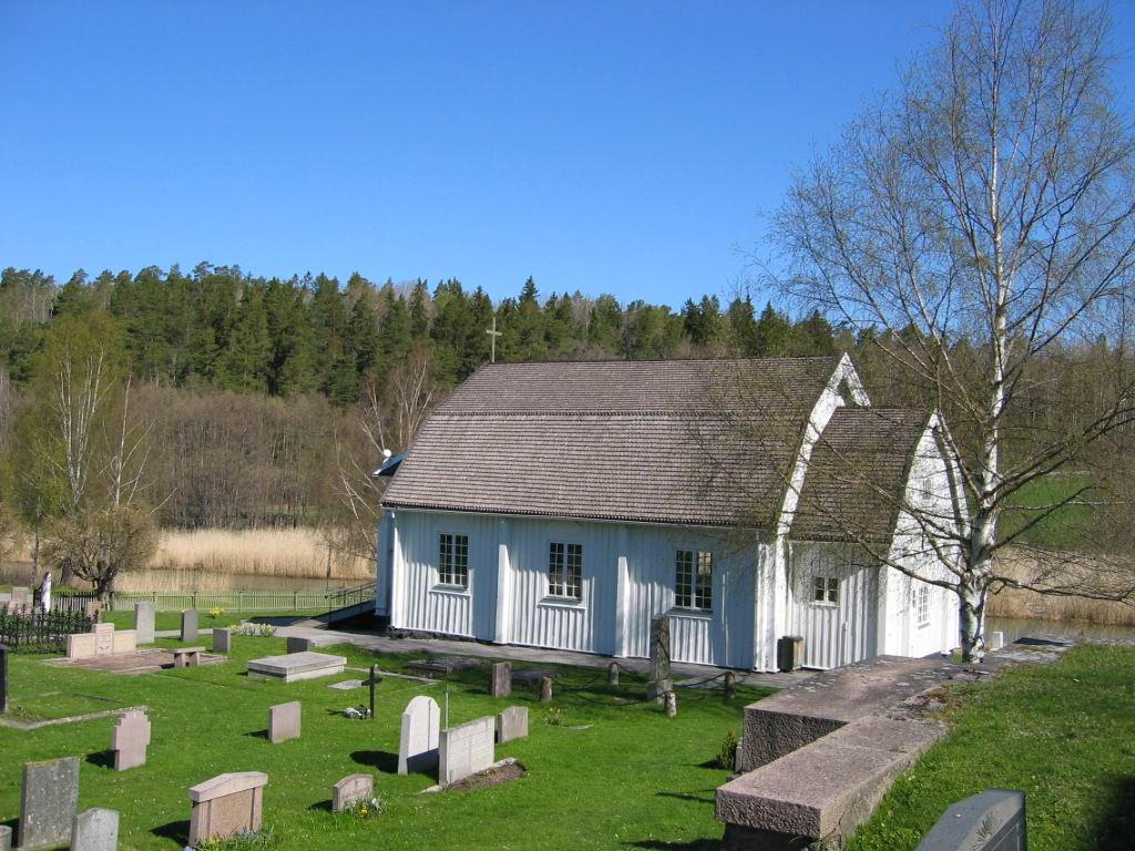 Ingarö kyrka (Ingarö church) on the island of Ingarö near Stockholm, Sweden. The Kolström canal, which separates the islands of Ingarö and Värmdö, can be seen behind the church.